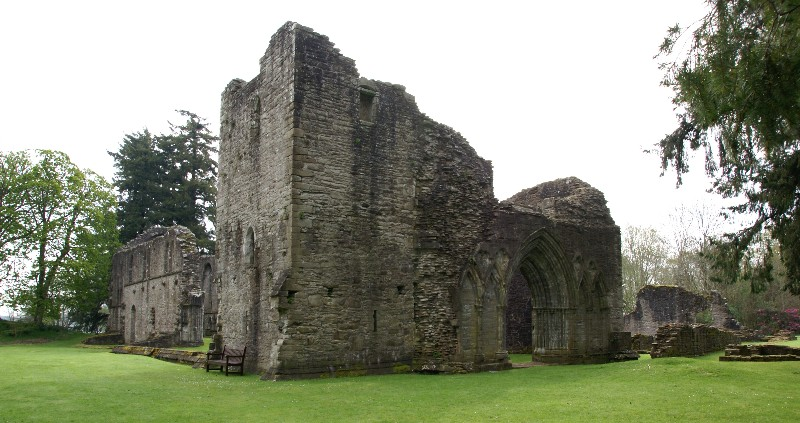 Inchmahome Priory, Scotland